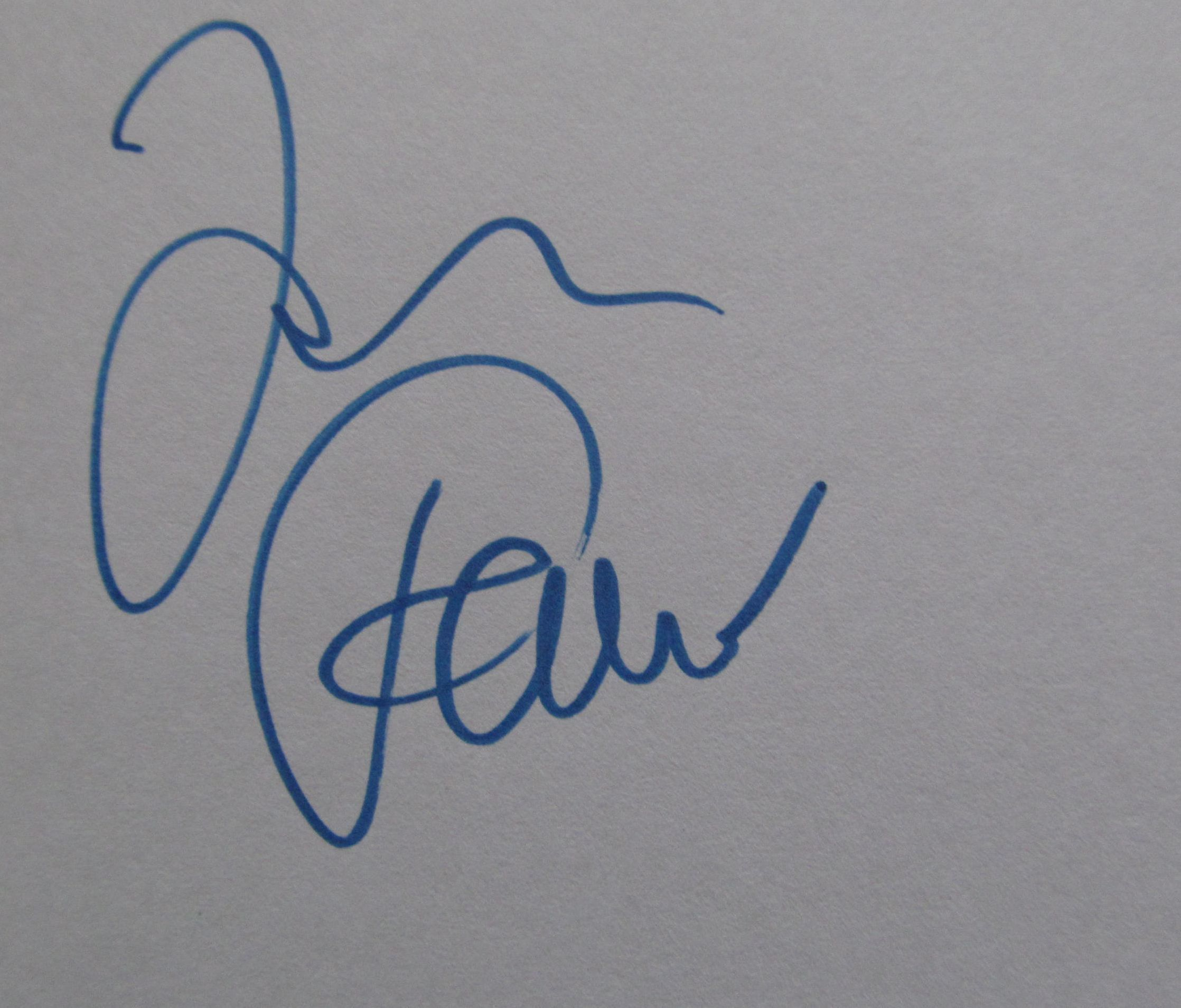 Signature of Isabelle Faust from 4th of March 2015